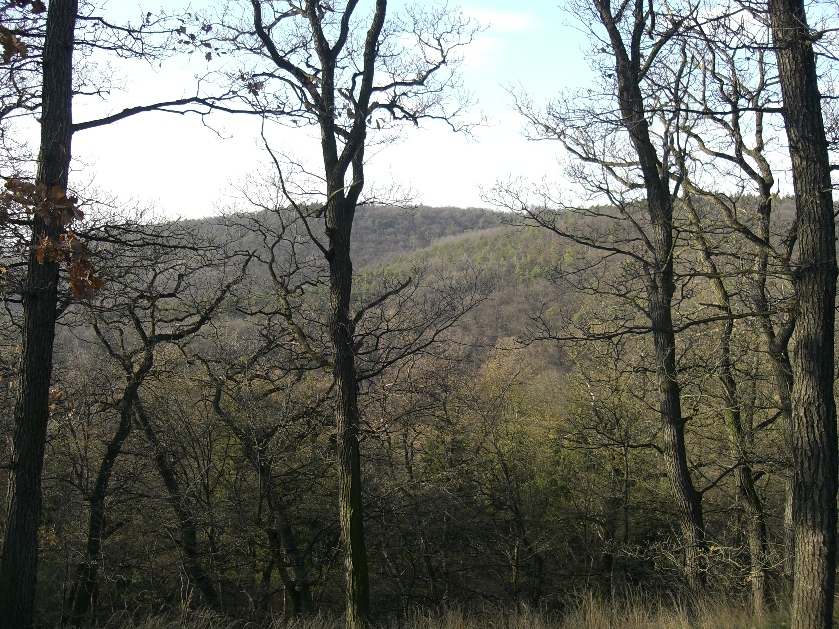 Kunratický forrest - panorama